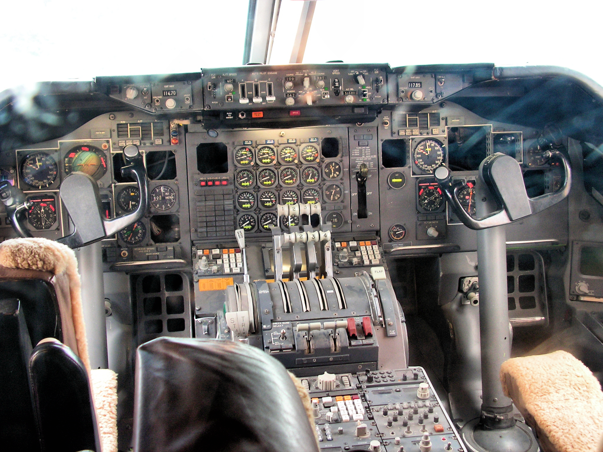 Cockpit of a 747-230 seen at the Technik Museum Speyer (Germany)